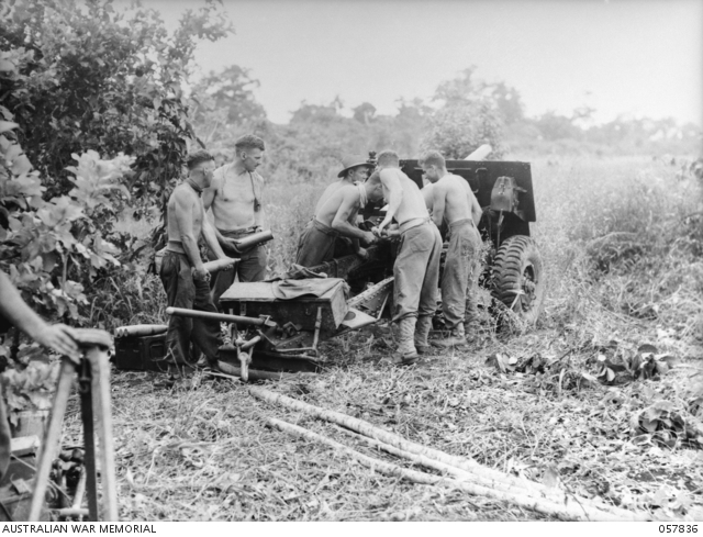 Men of "F" Troop, 62nd Battery, 2/12th Australian Field Regiment, using a 25-Pounder gun to shell the Kakakog area from the airstrip. Left To Right:- VX22646 Lance Bombardier (L/Bdr) A. C. Leech; VX32979 Lance Sergeant J. Shovelton; VX54153 Gunner (Gnr) A. J. Lavell; VX56066 L/Bdr B. G. Caelli; VX15677 Sergeant W. S. Strong; VX67395 Gnr F. Dines.